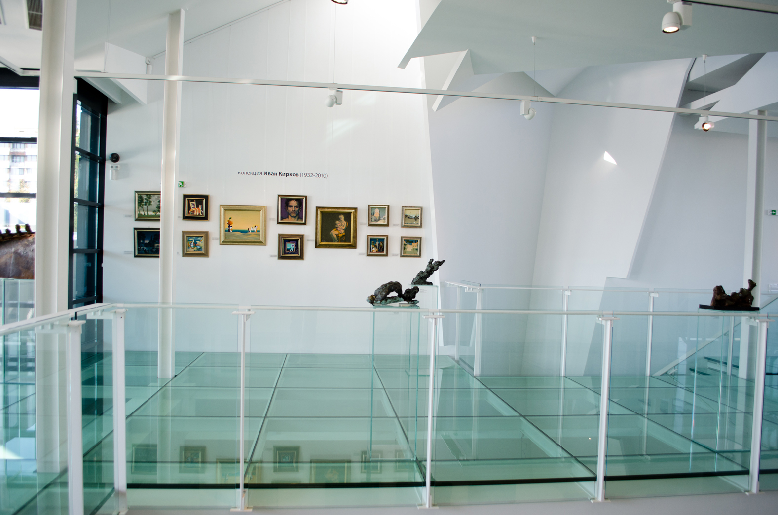 UniArt Gallery - A view from the inside